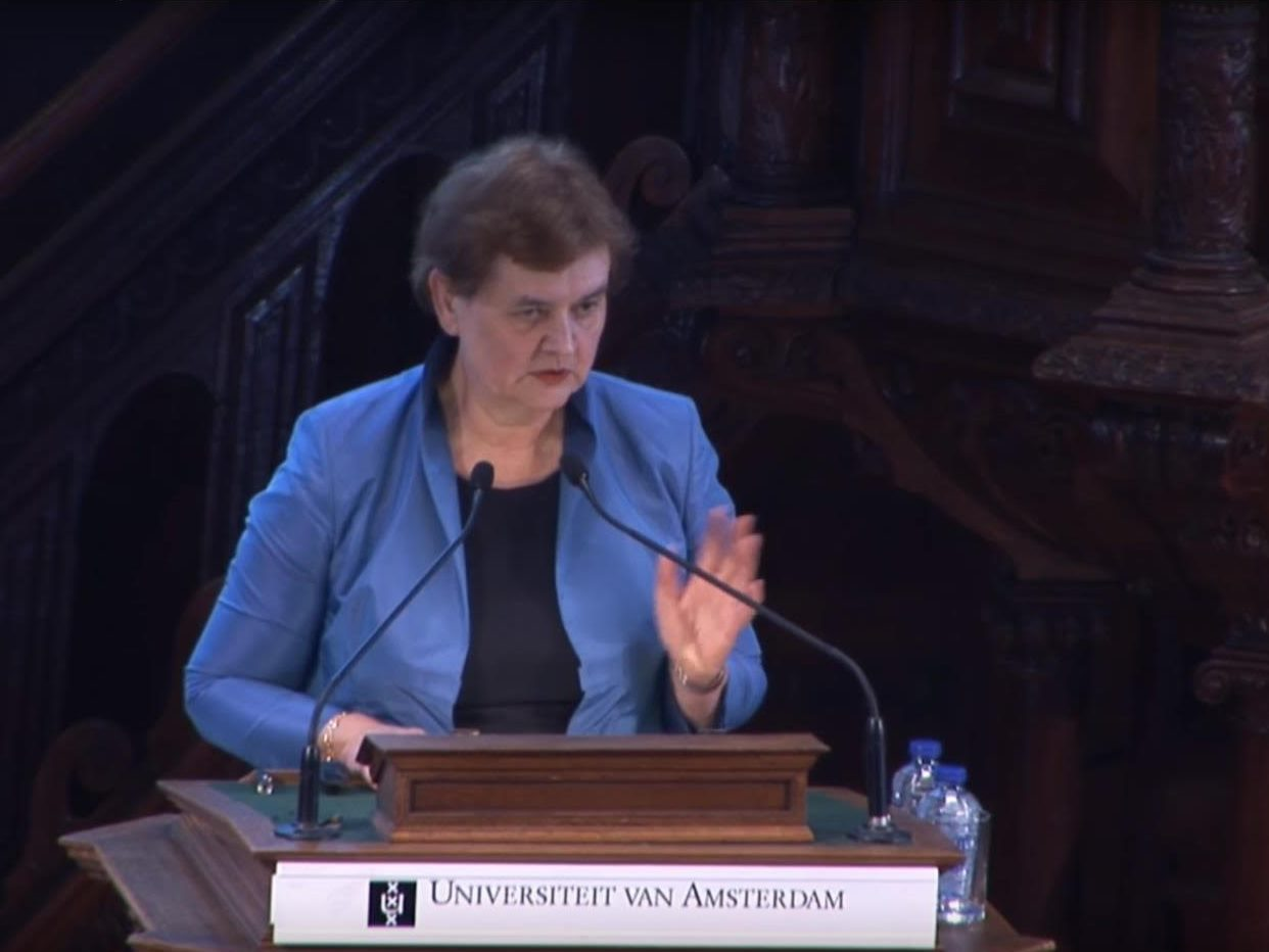 Dymph van den Boom, rector of Amsterdam University, during a meeting of COFACE-EU about gender equality, 19-20 April 2016